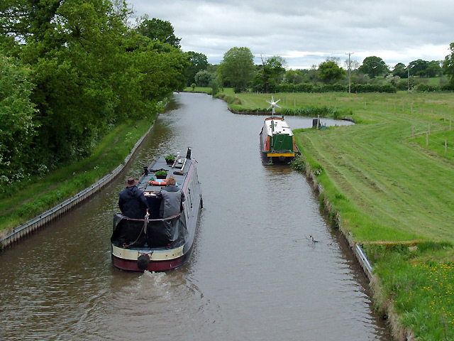 Llangollen Canal near Ravensmoor, Cheshire, Great Britain. Seen from Stoneley Green Bridge.